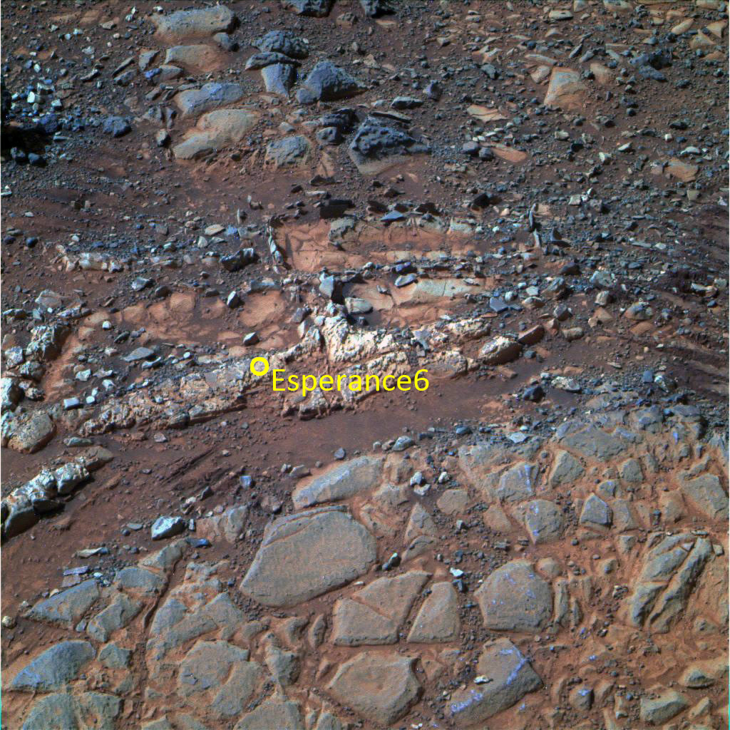 'Esperance' Target Examined by Opportunity This image from the panoramic camera (Pancam) on NASA's Mars Exploration Rover Opportunity shows a pale rock called "Esperence," which was inspected by the rover in May 2013. At the specific target point "Esperance6," Opportunity used its rock abrasion tool (RAT) to remove some surface material and then used its alpha particle X-ray spectrometer (APXS) to identify chemical elements in the rock. The APXS data showed that Esperance's composition is higher in aluminum and silica, and lower in calcium and iron, than other rocks Opportunity has examined in more than nine years on Mars. Preliminary interpretation points to clay mineral content due to intensive alteration by water. This image shows an area about 28 inches (70 centimeters) wide. It is a composite of three exposures taken by Opportunity's panoramic camera (Pancam) through different filters during the 3,230th Martian day, or sol, of the rover's work on Mars (Feb. 23, 2013). The view is presented in false color to make some differences between materials easier to see.